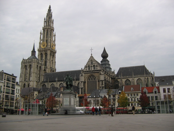 Onze-Lieve-Vrouwekathedraal, Antwerp, as seen from the Groenplaats. Uploaded by User:Alison, photograph by Paul Underwood with permission.